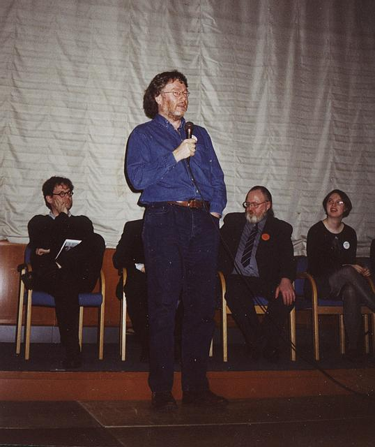 Iain (M.) Banks as guest of honour at a science fiction convention in Bergen, 2000